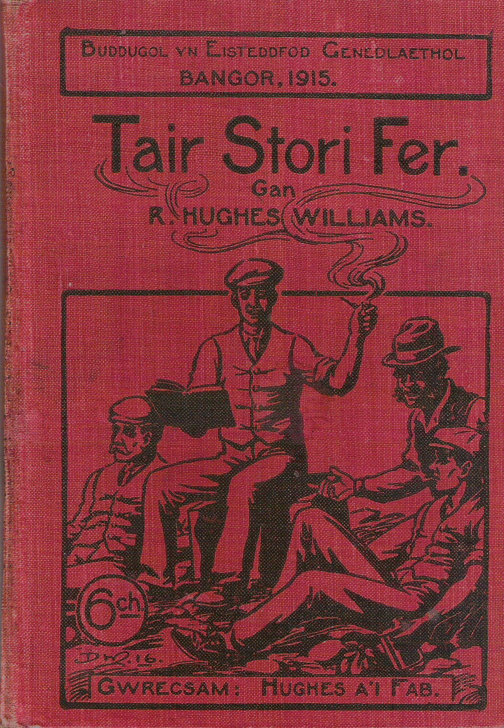 Front cover of Tair Stori Fer by Richard Hughes Williams (Dic Tryfan), a collection of three Welsh-language short stories about quarrymen that won the prose prize in the National Eisteddfod of Wales Bangor 1915 (Wrexham, 1916).